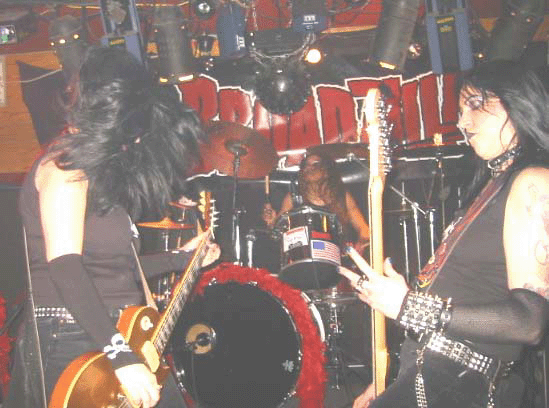 Broadzilla in Charlottesville, Virginia, 2003 (L-R: Rachel May, Angie Manly, Kim Essiambre)